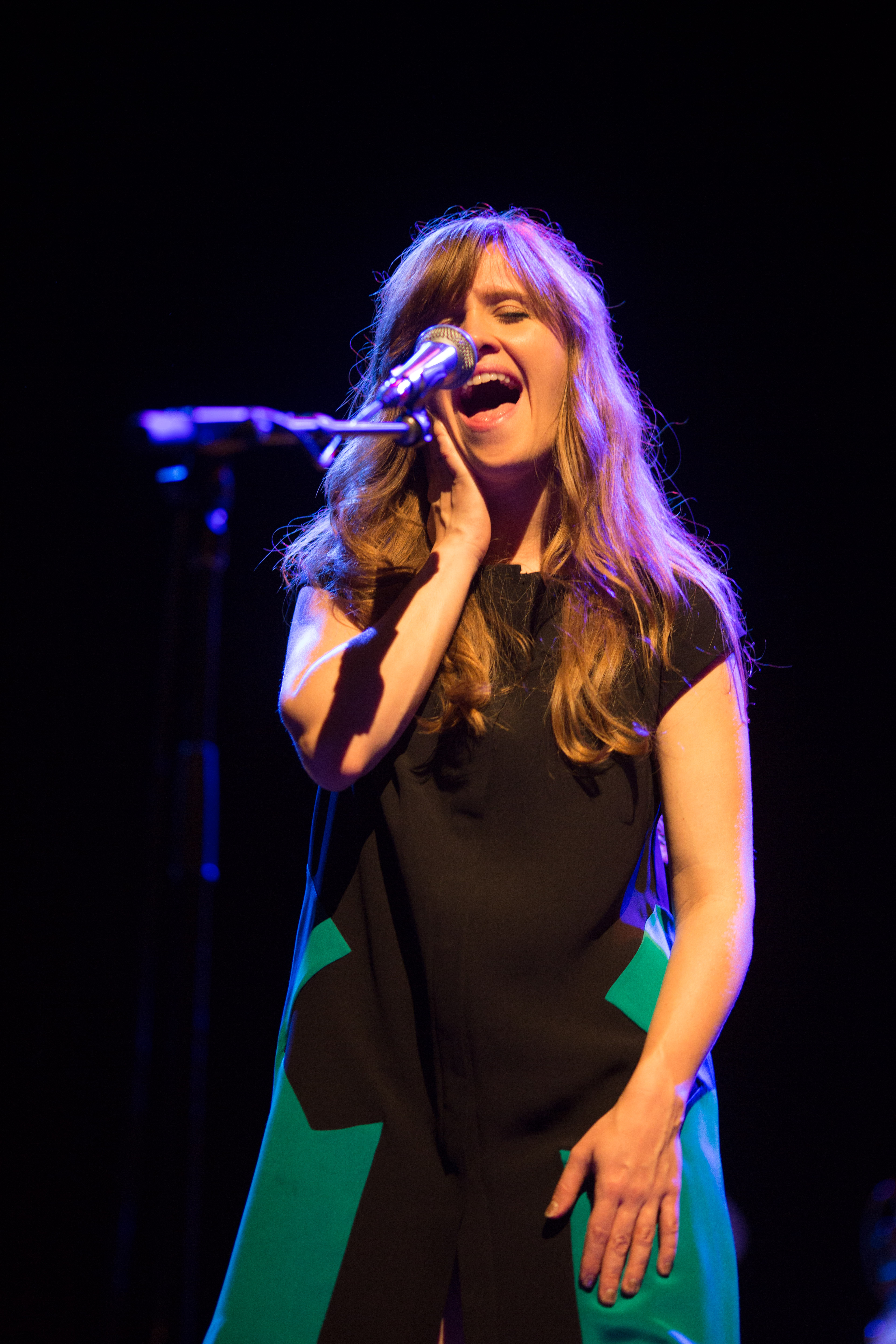 The Dirty Projectors at the Sydney Opera House - as part of the 2013 Festival of Sydney